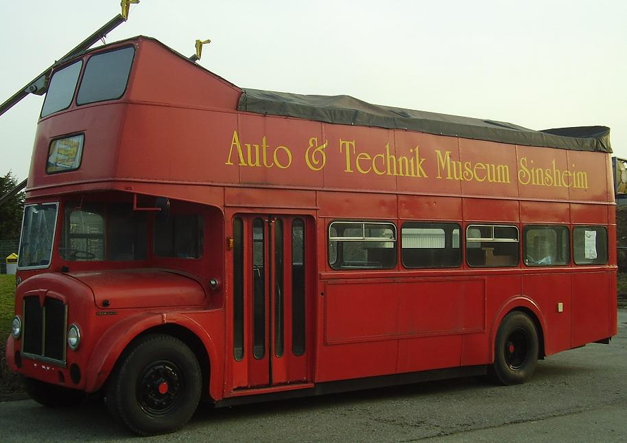 British AEC Regent double decker similar to the Routemasterat the Sinsheim Auto & Technik Museum (Sinsheim / Germany)